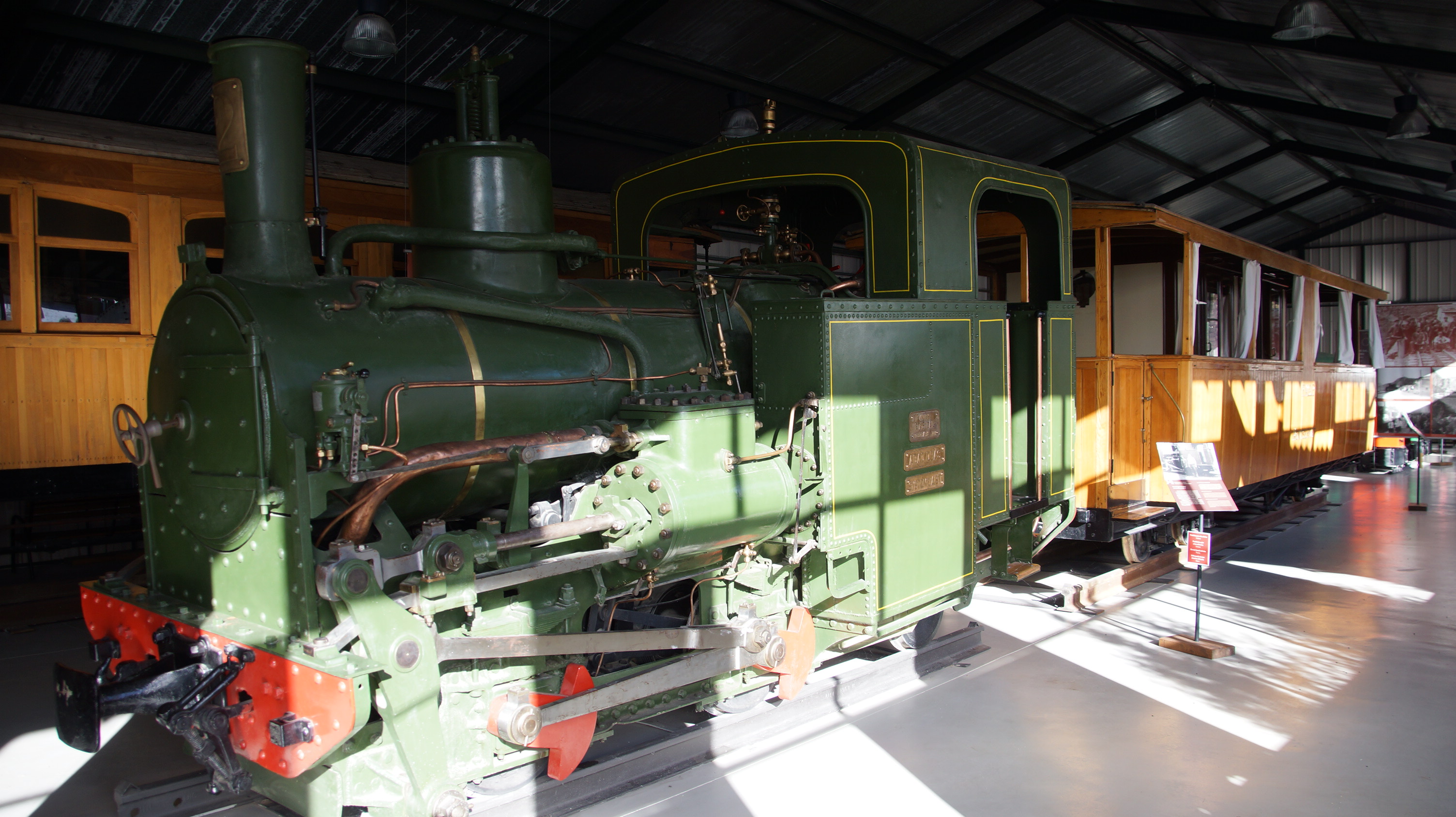 Narrow gauge railway museum in La Pobla de Lillet (Catalonia, Spain)} Cotxe saló A-1 o cotxe del rei, ja que en ell va viatjar el rei Alfons XIII per visitar Montserrat en dues ocasions. Aquest cotxe, per ser el vagó insígnia de la línia, sempre ha sigut el millor conservat. El 1925 se li va instal·lar calefacció a vapor, el 1929 es va reformar totalment en uns tallers de Barcelona i fins abans de la Guerra Civil, sortia en comptades ocasions i sempre amb personalitats